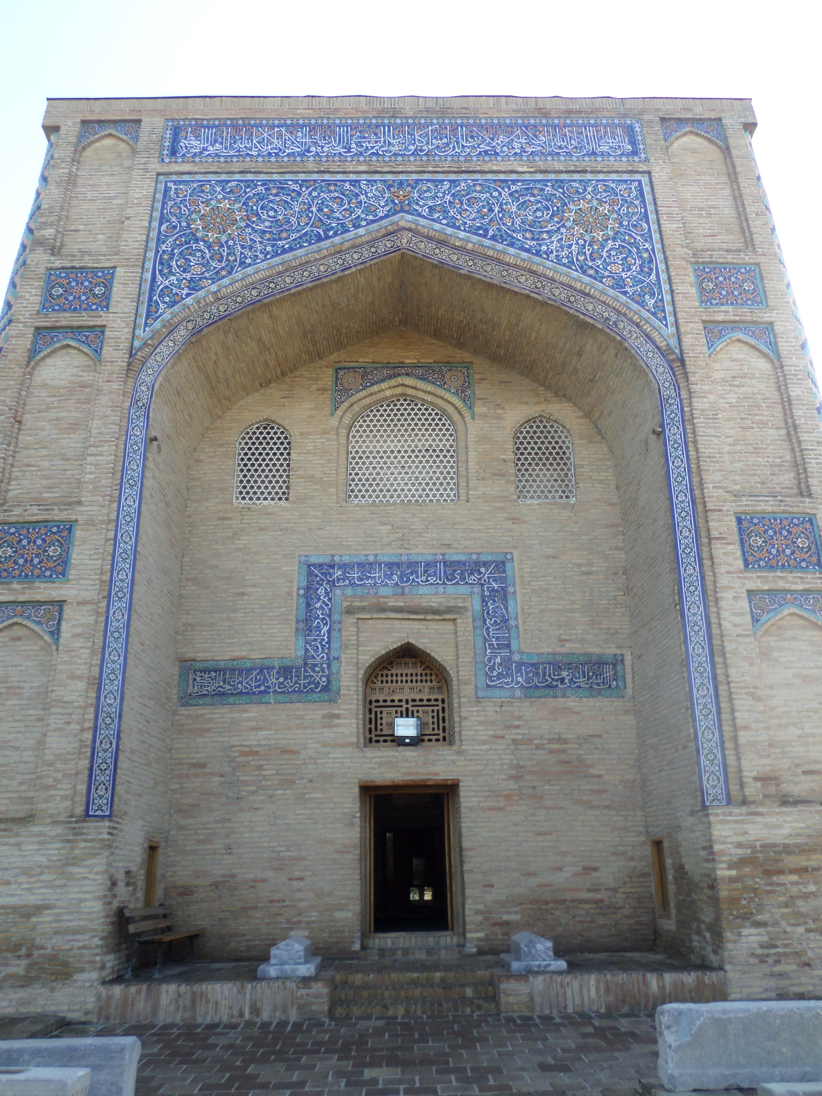 MavzoleyKaffal Shashi